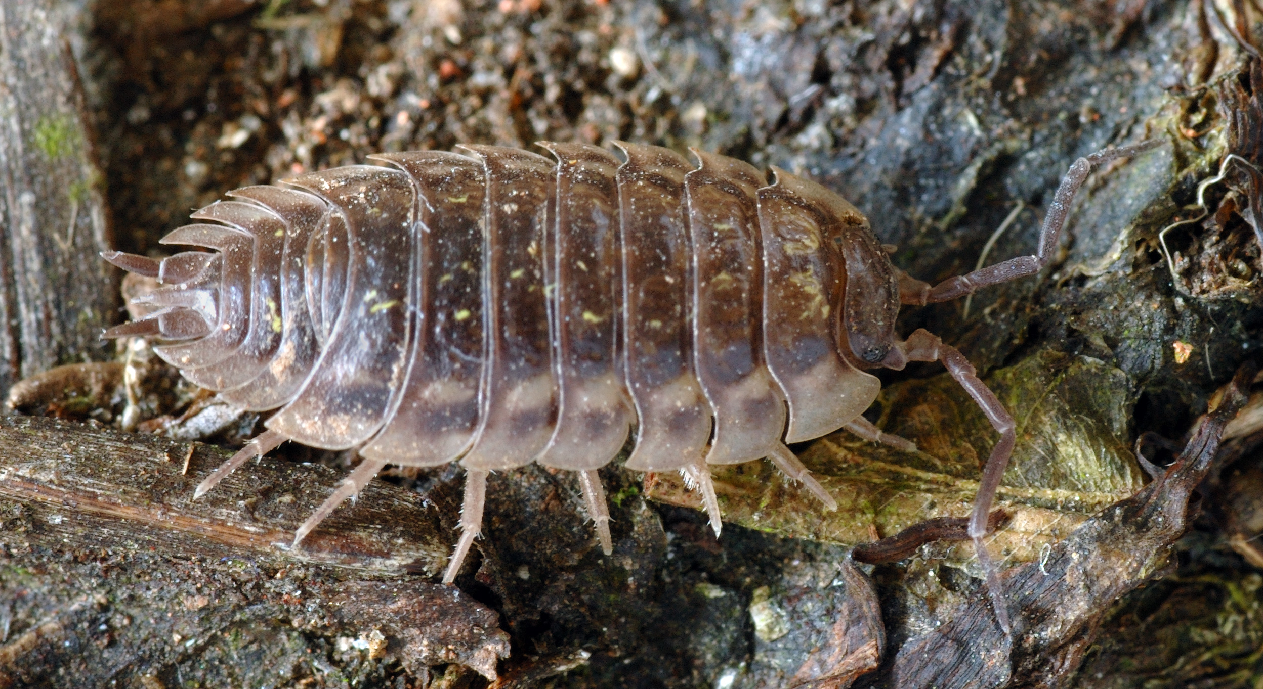 This image shows a 0.4 inch (10 mm) large male Common woodlouse (Oniscus asellus).